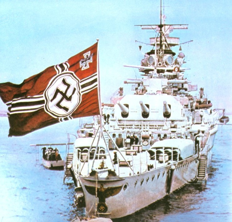 'Admiral Graf Spee' at the Spithead Naval Review representing Germany at the coronation of King George VI.